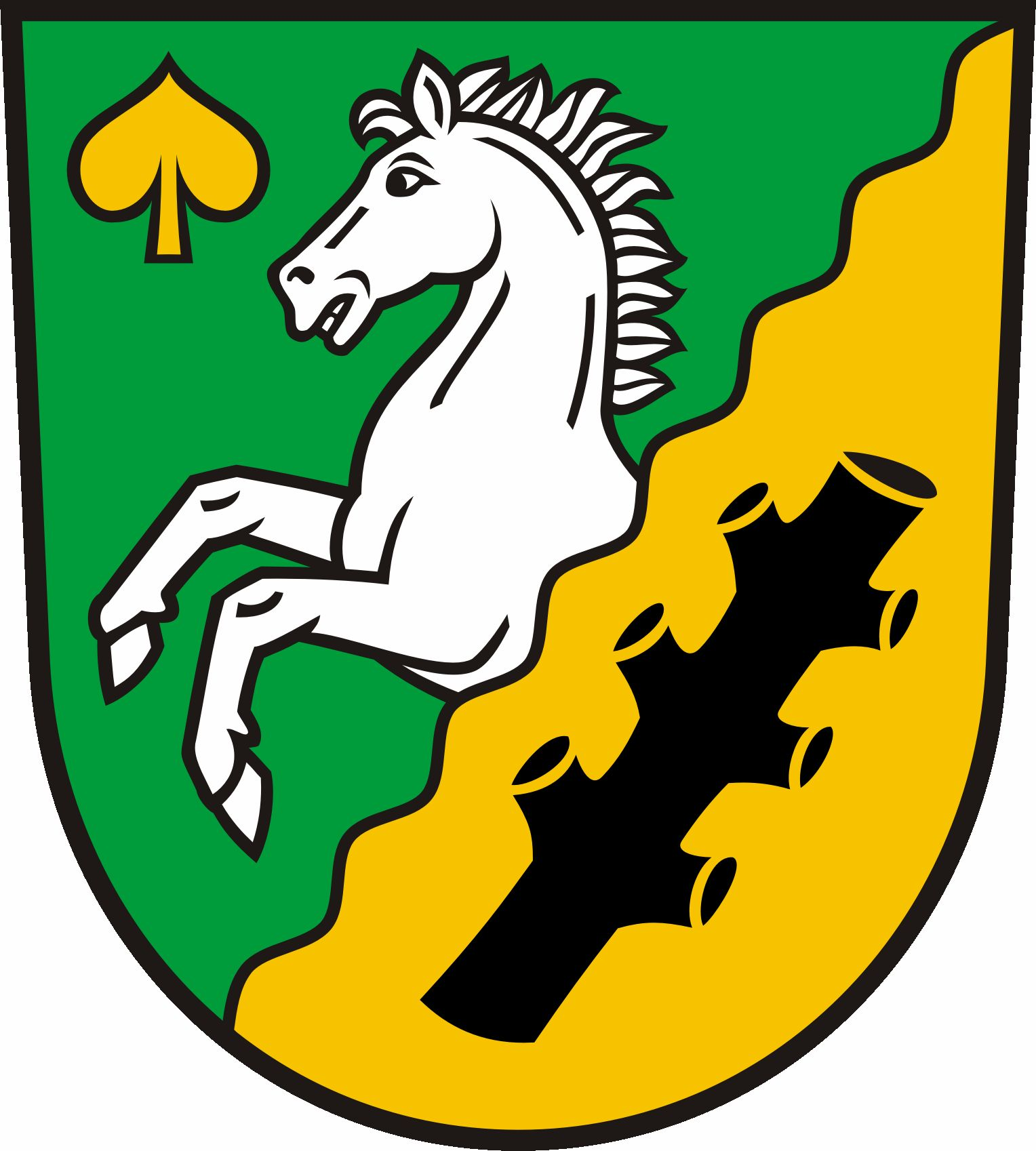 Coat of Arms of Löbnitz